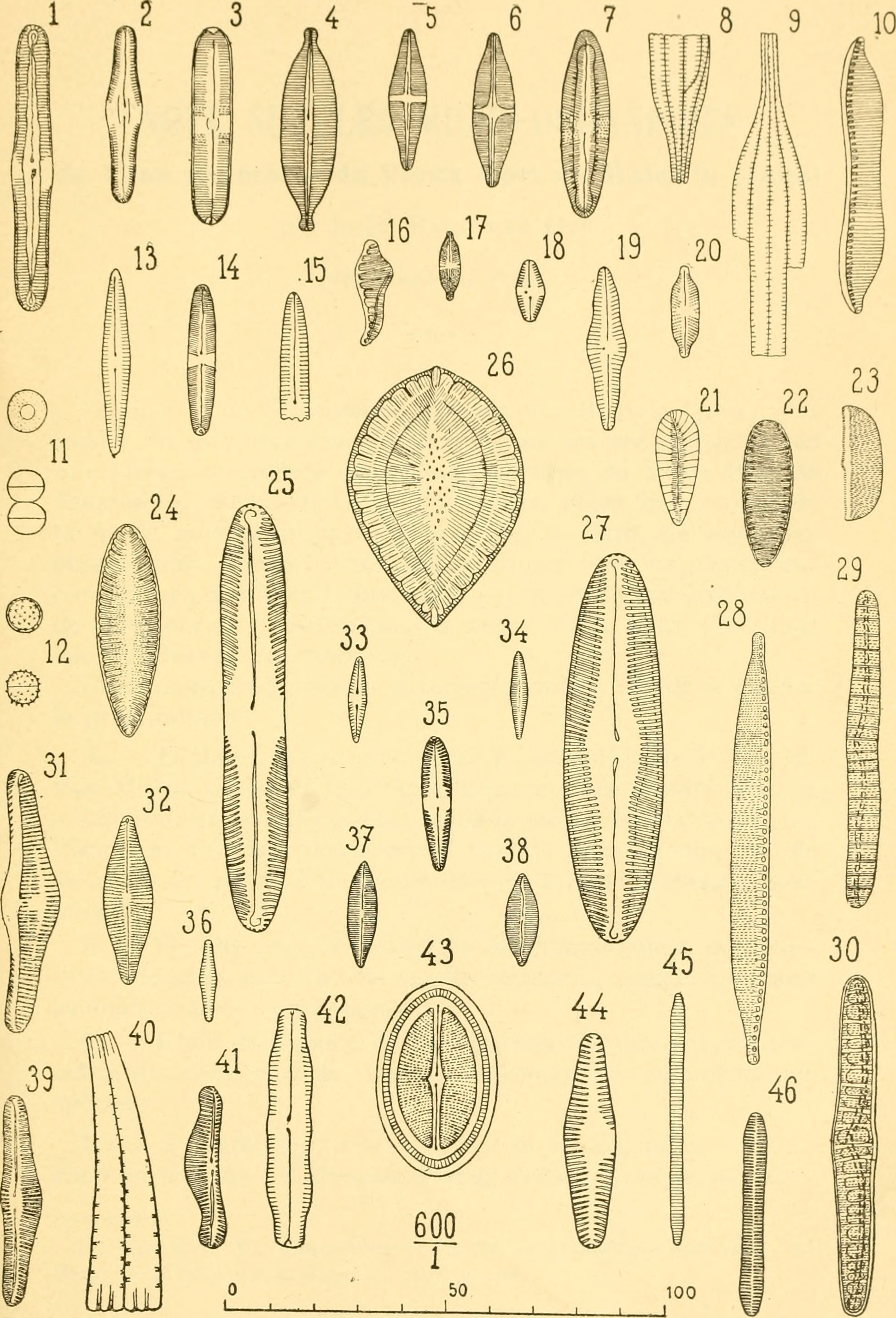 Title: Annales de biologie lacustre Year: 1920 (1920s) Authors: Station biologique d'Overmeire Subjects: Natural history; Freshwater animals; Freshwater plants; Lakes Publisher: Bruxelles : F. Vanbuggenhoudt Text Appearing Before Image: Diatonnées des travertins d'Auvergne. PI. VII. Text Appearing After Image: '